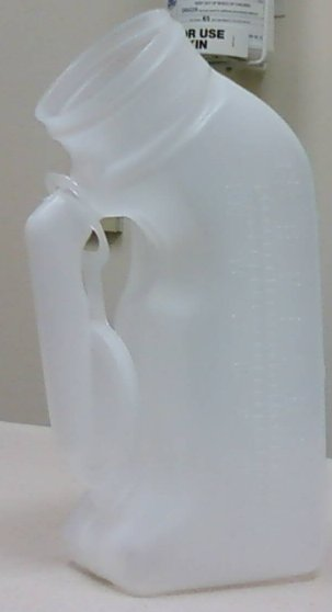 Urinal